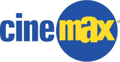 This is the logo of the television channel Cinemax.